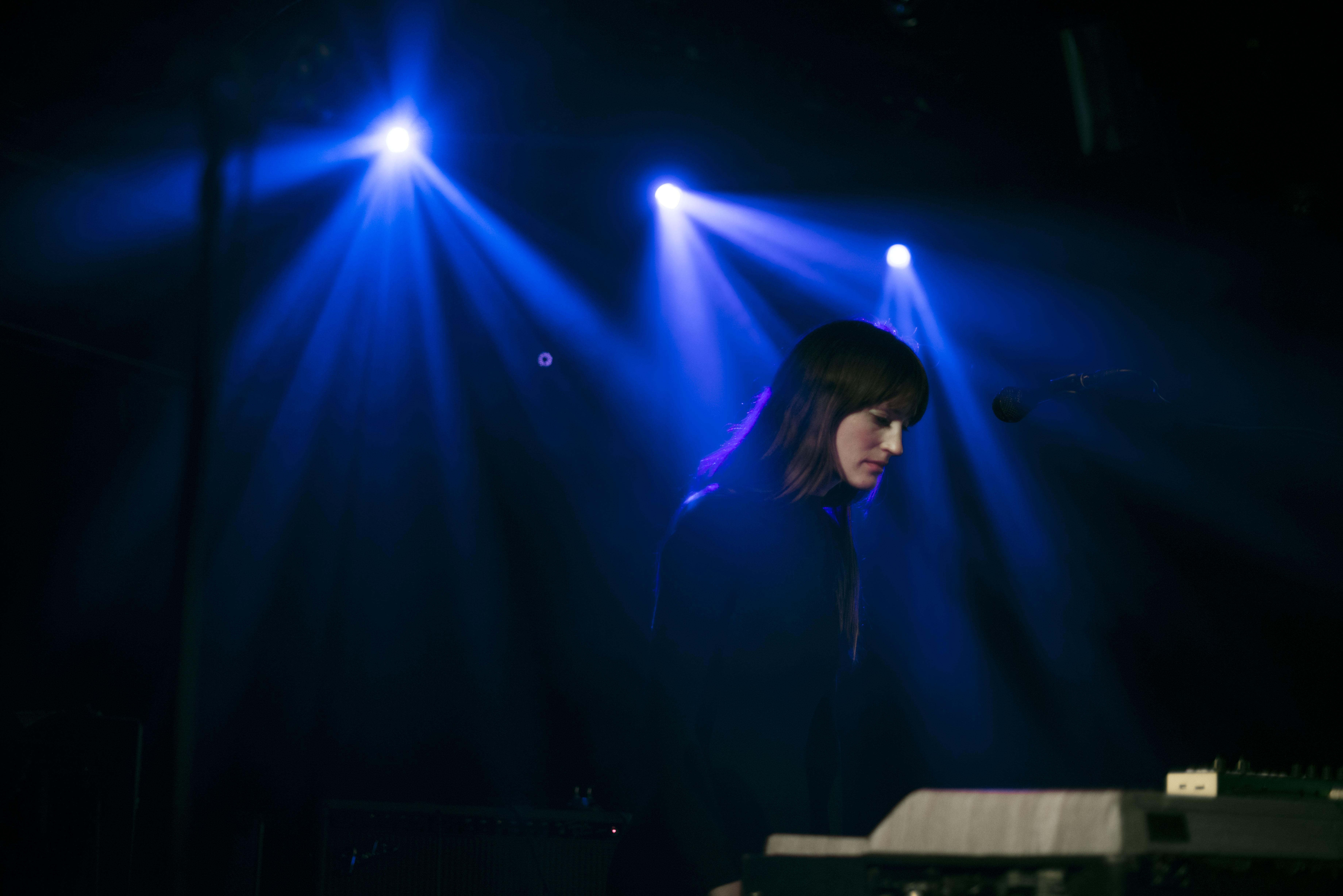 Annie Hart performing live at Le Poisson Rouge in NYC, 2016